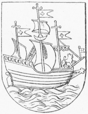 Coat of arms of Nykøbing Falster, a chartered town in Denmark, 1655 version. Illustration from the article Om danske By- og Herredsvaaben written by Anders Thiset and published in Tidsskrift for Kunstindustri 1893-1894.